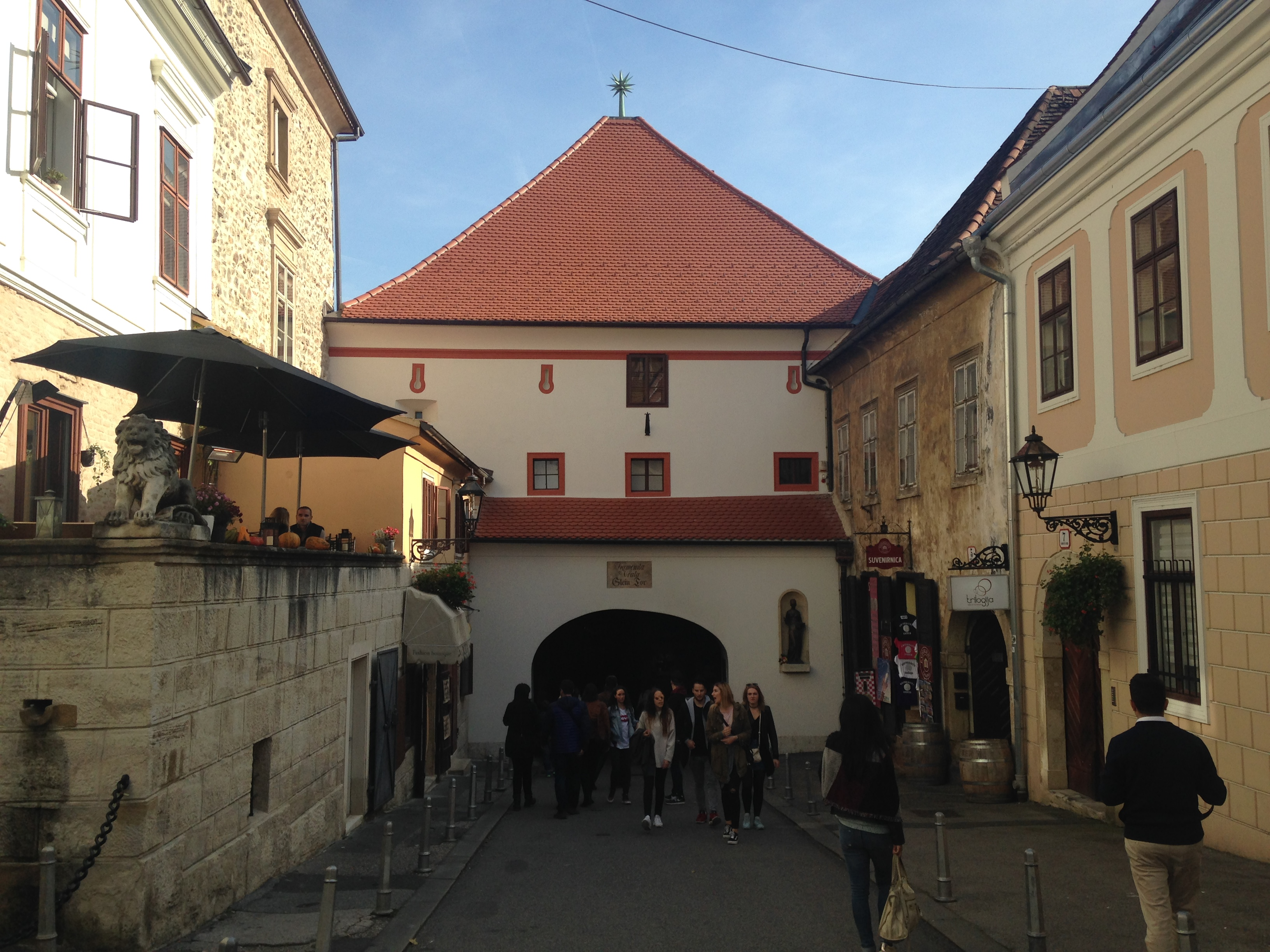 Kamenita vrata in Zagreb